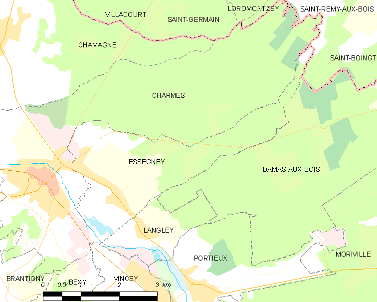 Map of French municipality Essegney